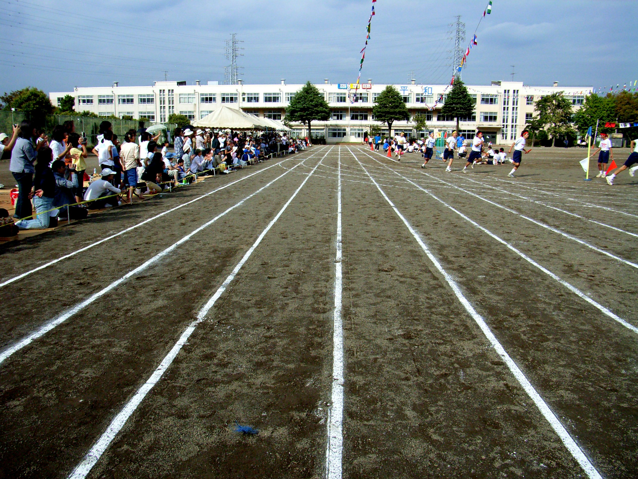 An athletic meet as "Undoukai" is very familiar to the Japanese. This photo was taken at my daughter's junior high school.